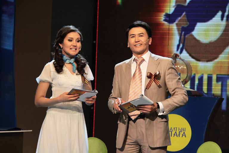 Ведущие АлтынТага